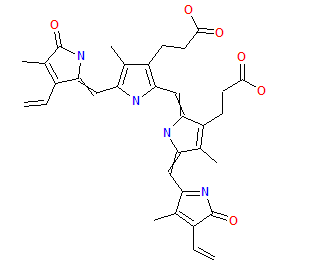 The structure of Biliverdin